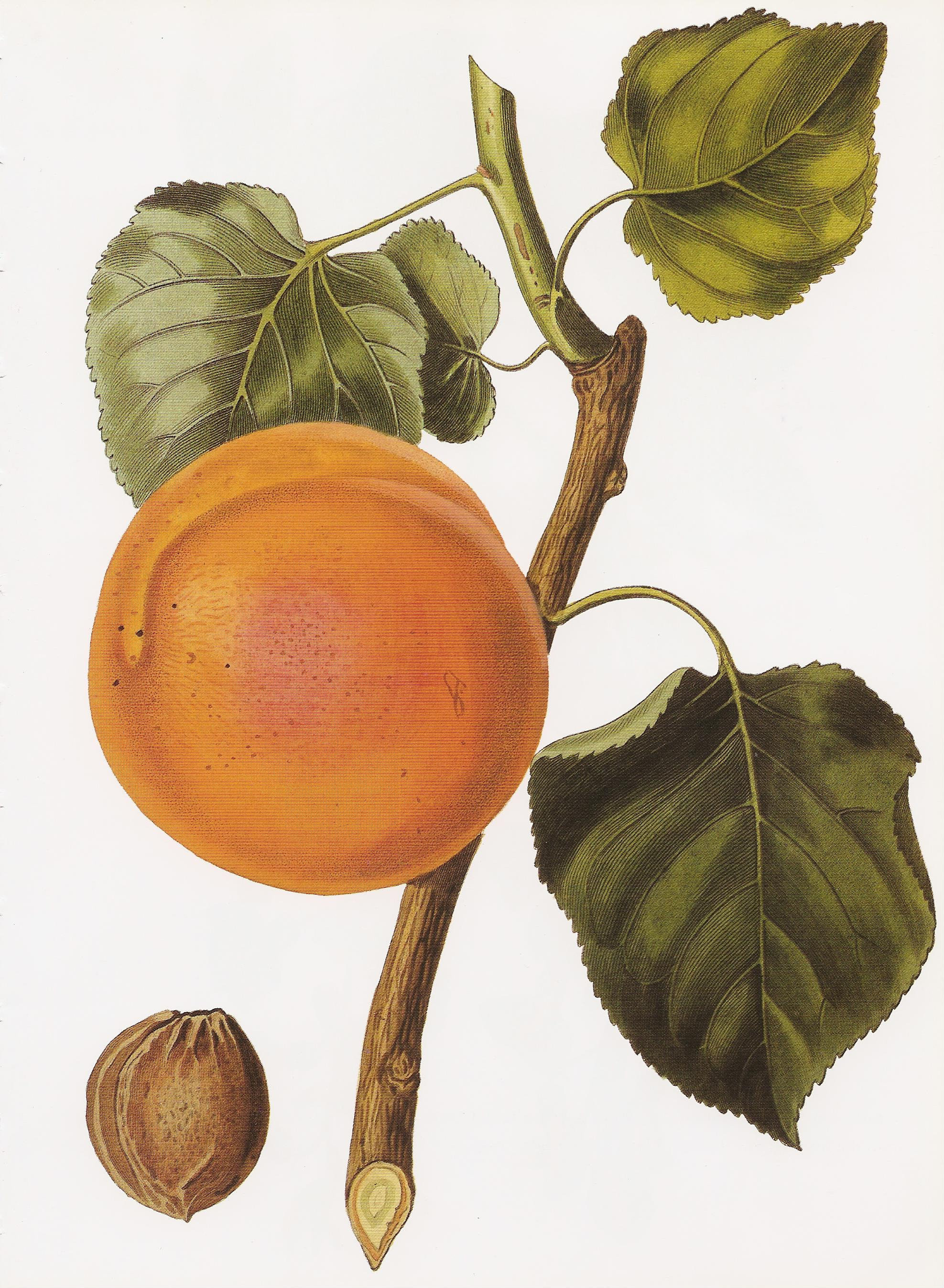 The 'Turkey' apricot, a hand-coloured engraving after a drawing by Augusta Innes Withers (1792-1869), from the first volume of John Lindley's Pomological Magazine (1827-1828)